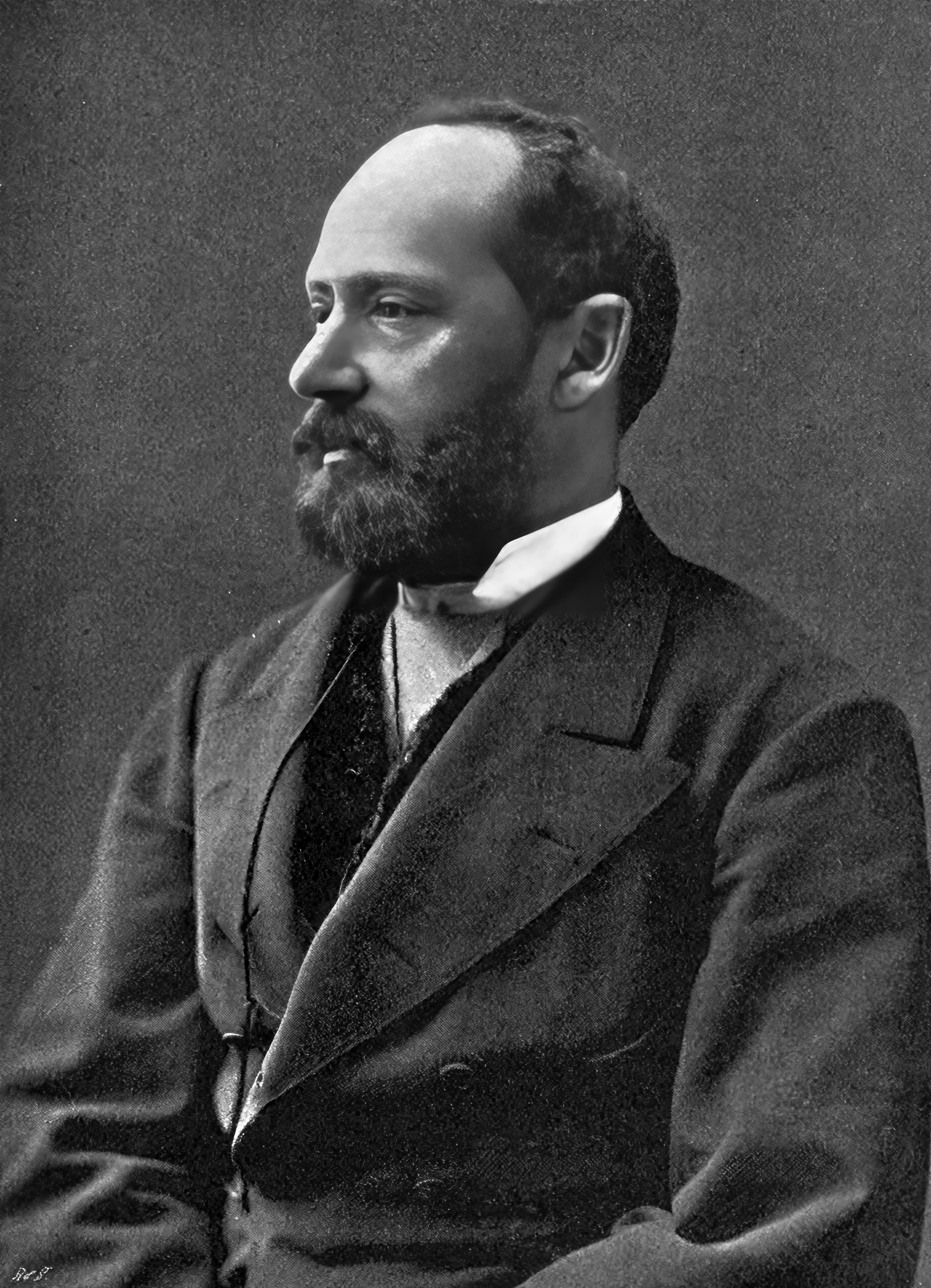 Portrait of Ármin Vámbéry